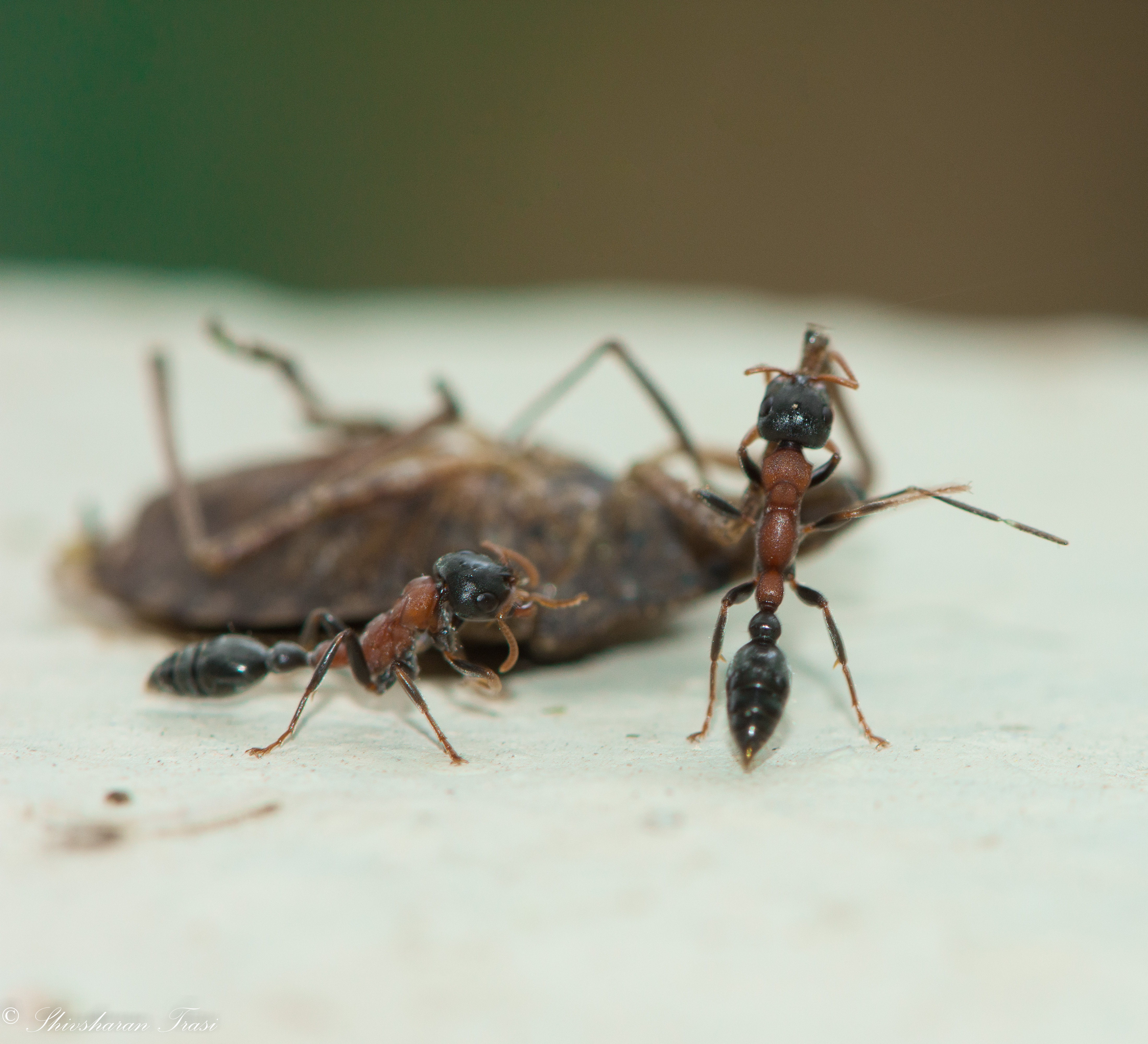 Tetraponera Rufonigra feed a dead beetle